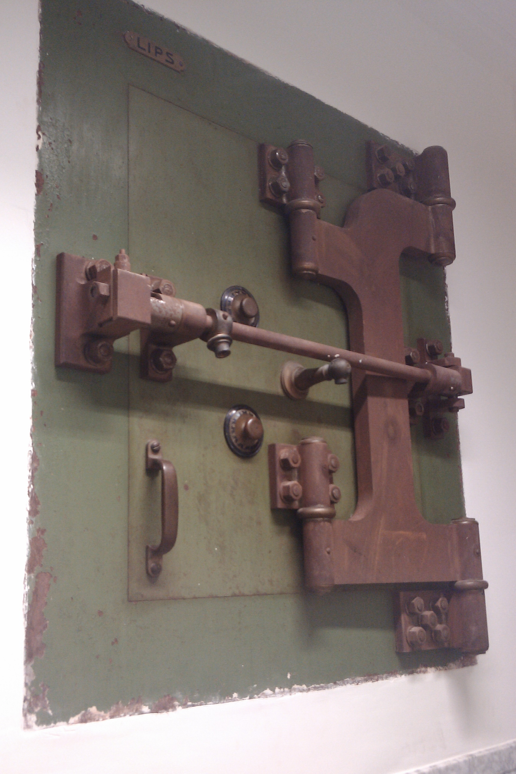 Vault lock in De Tempel, Prins Hendrikstraat 39, Den Haag.